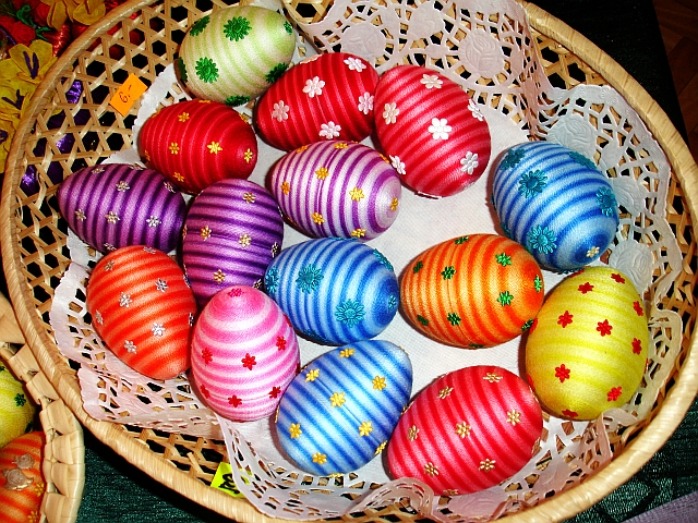 easter decorations